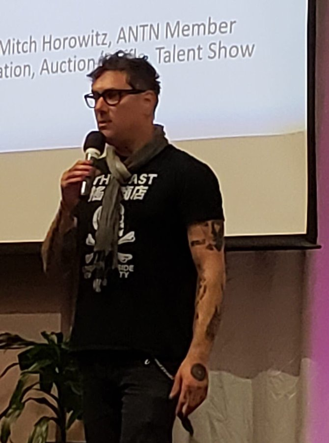 This is a photo taken of author and lecturer Mitch Horowitz giving a public lecture.